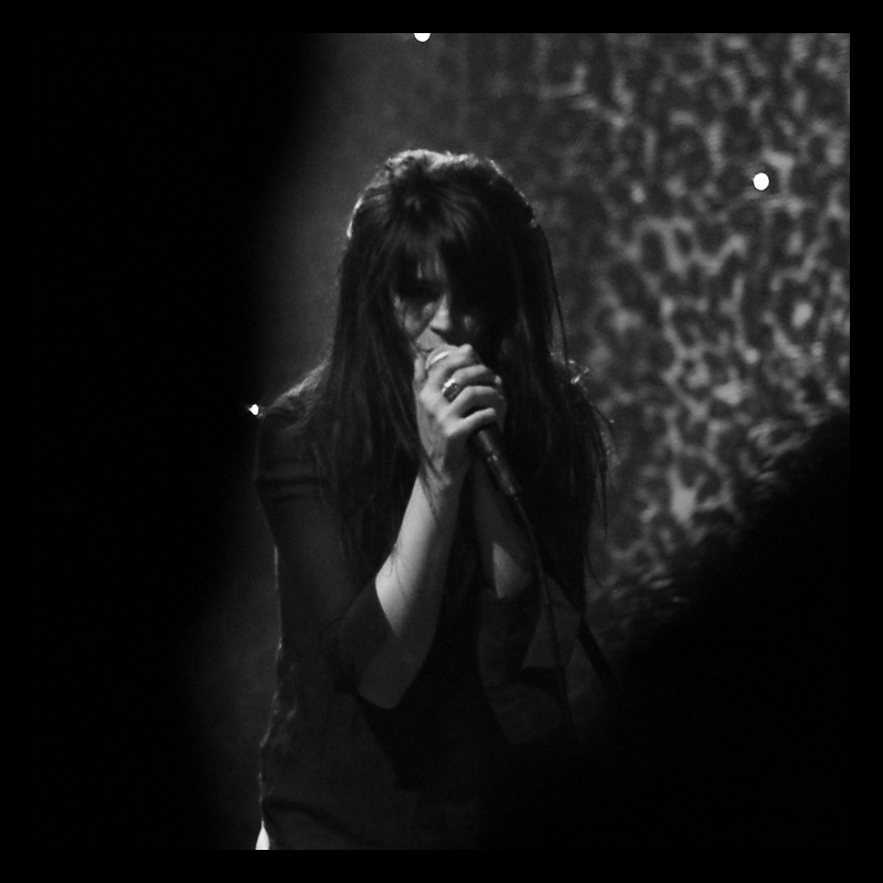 Alison Mosshart photo by